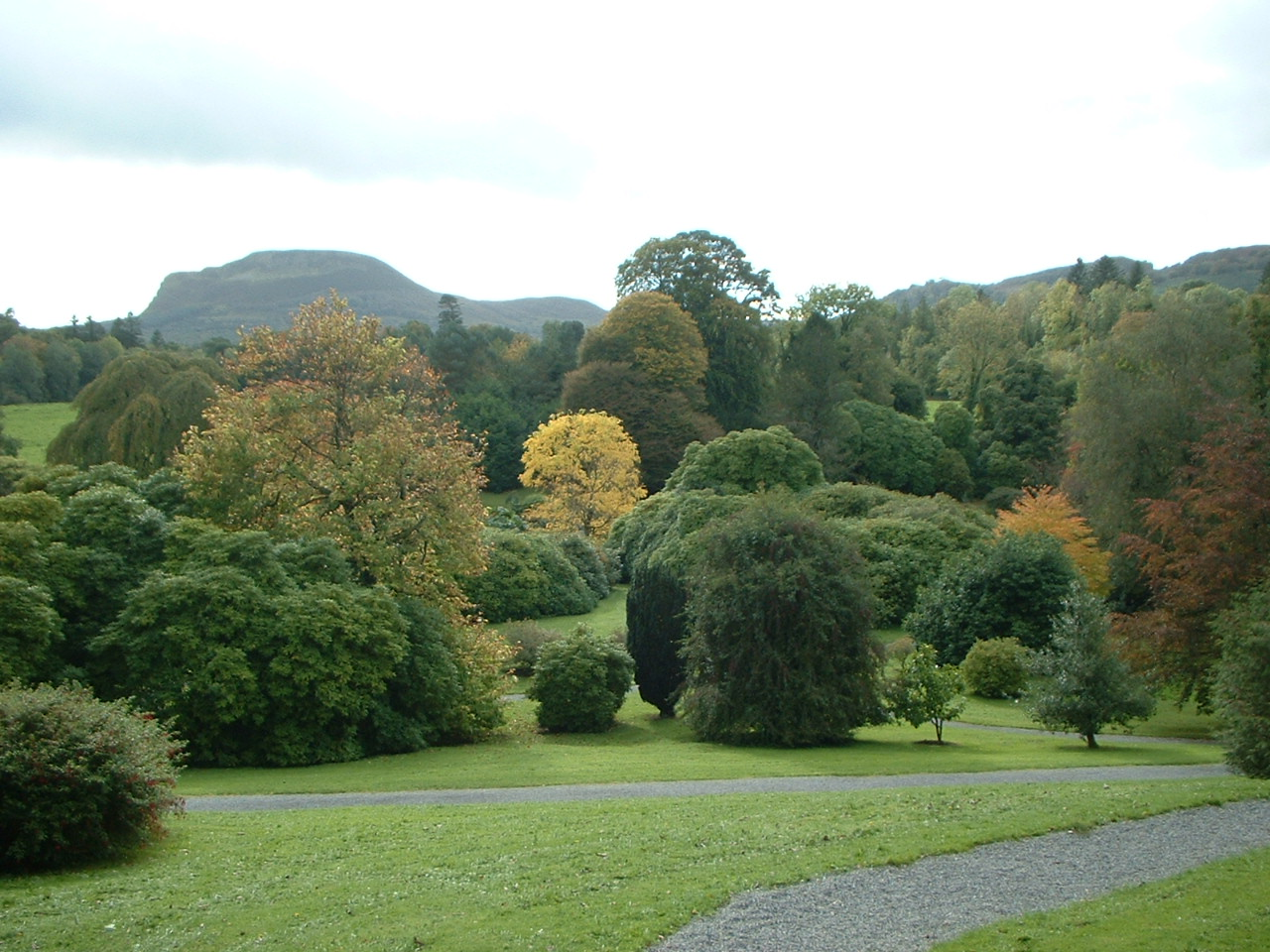 View overlooking the landscaped estate at Florence Court house, near Enniskillen, County Fermanagh, Northern Ireland. Benaughlin Mountain, a batholytic foothill of Cuilcagh stands in the background on the left of the frame.